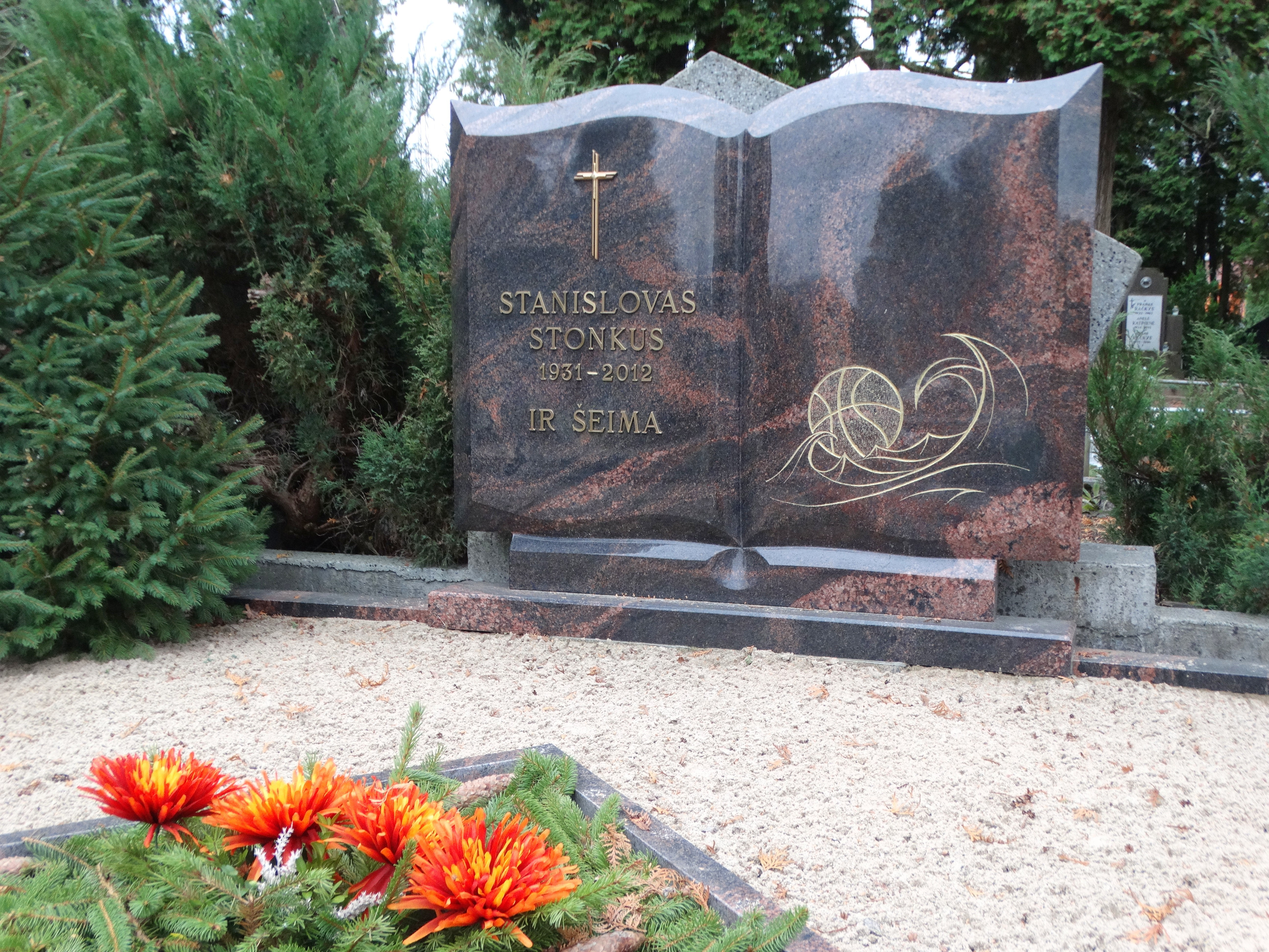 Tomb of Stanislovas Stonkus, Eiguliai cemetery, Lithuania